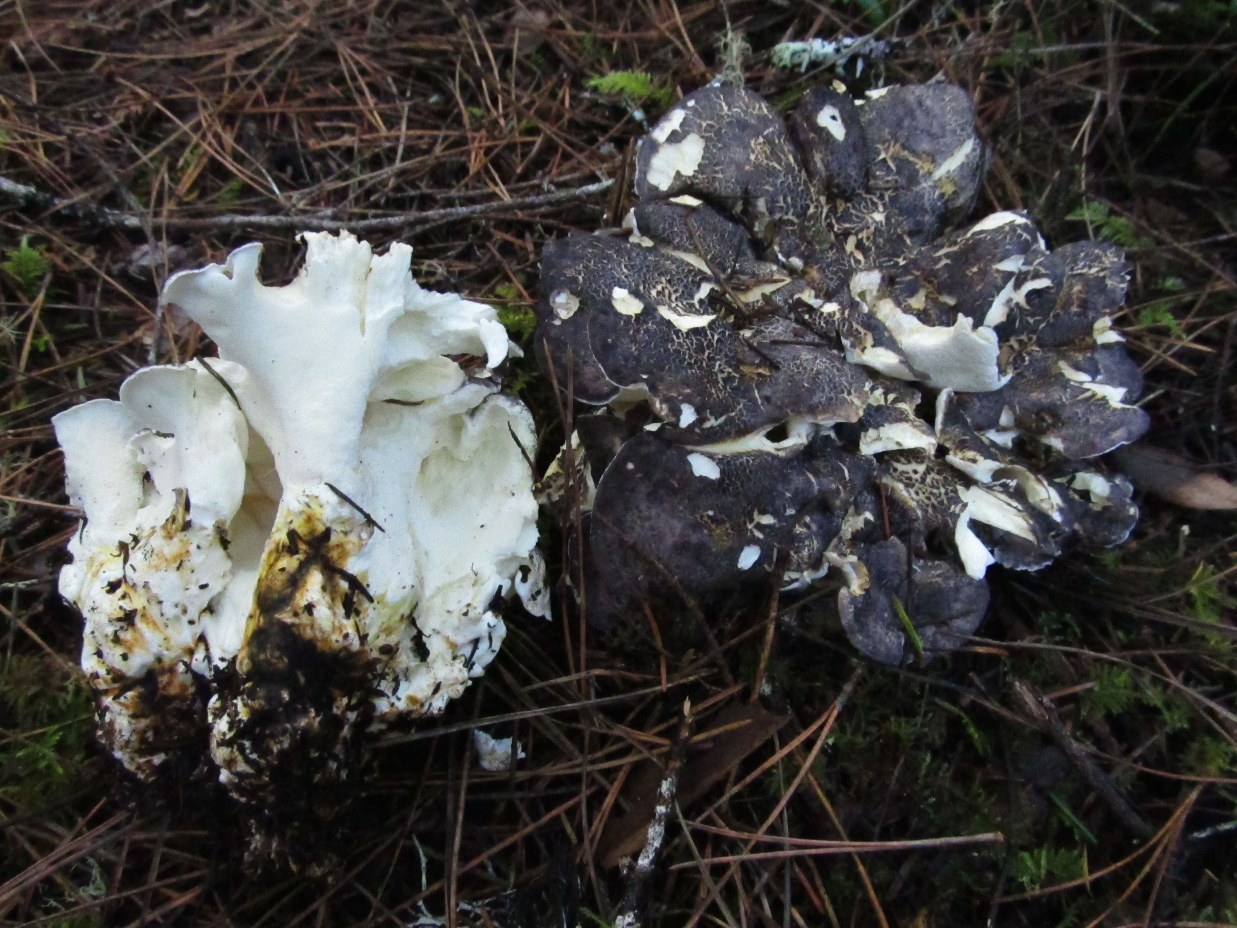 Fruit bodies of the fungus Albatrellus subrubescens, sensu Ginns (1997). Ginns said that North American specimens could be found "covered with blackish grey to purple-grey fibrils". Photographed in Mendocino, California, USA.